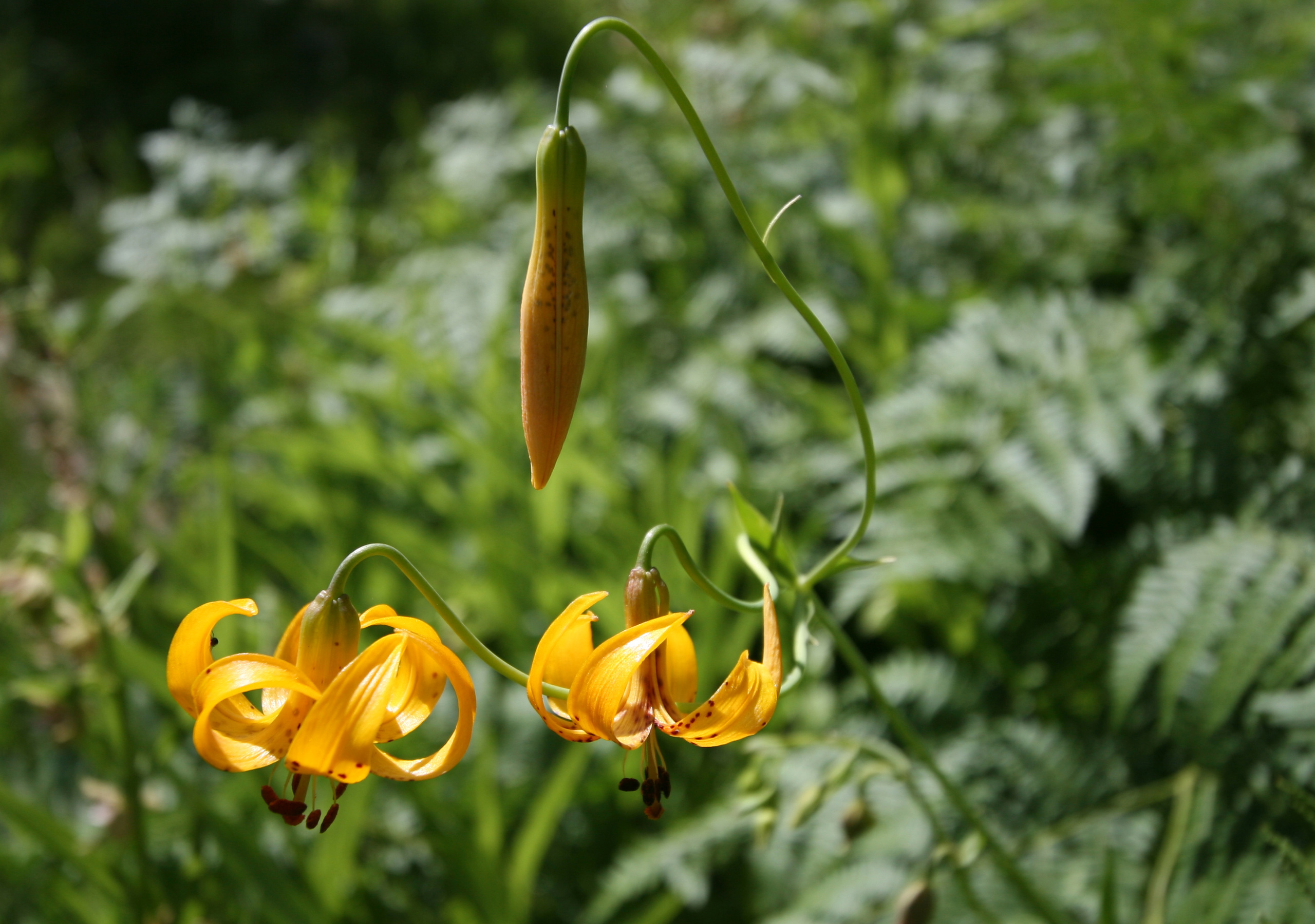 Columbia tiger lily (Lilium columbianum), pair with bud. About 7000ft, eastern Sierra.